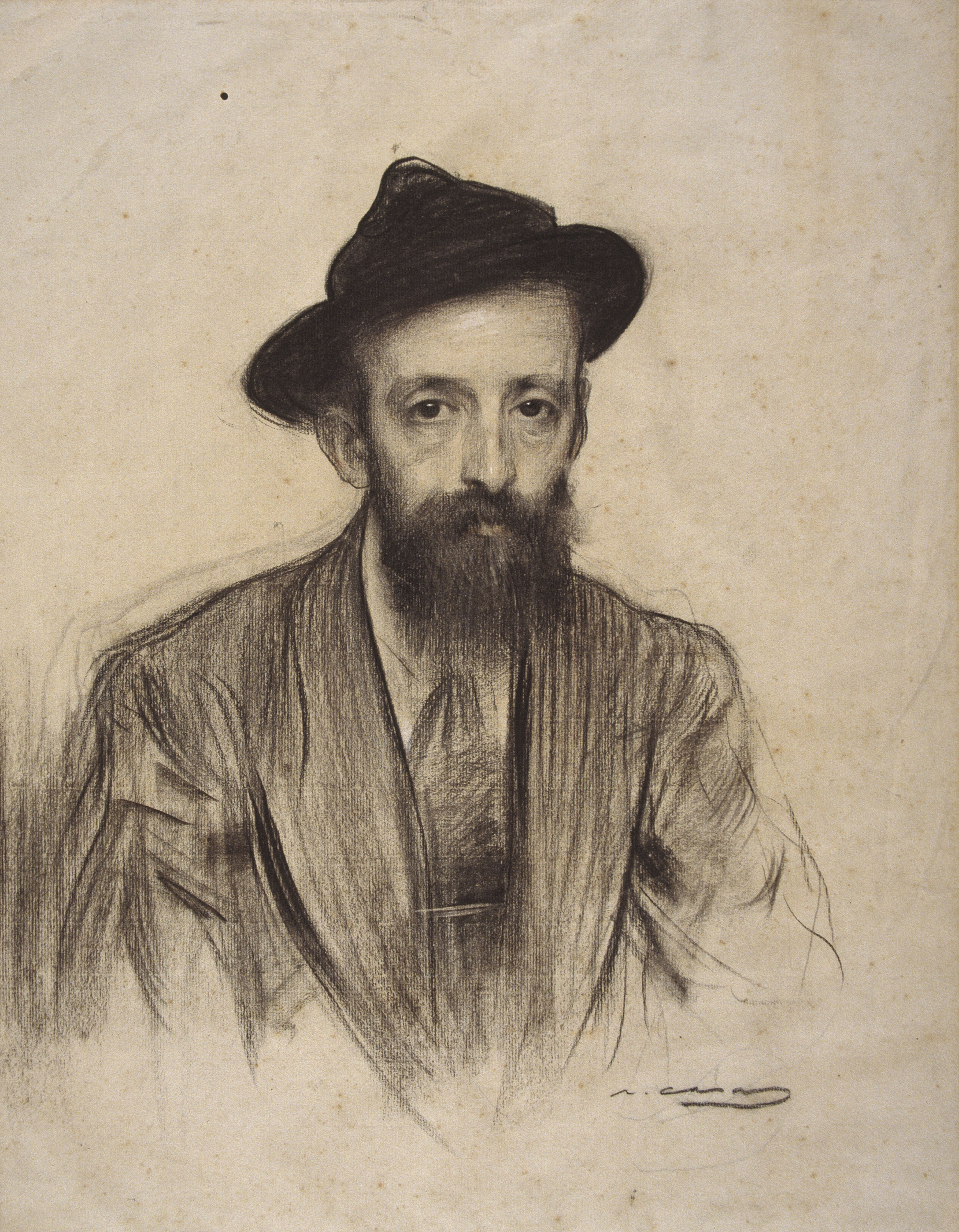 Portrait by Ramon Casas conserved at MNAC in Barcelona. Imagen 068